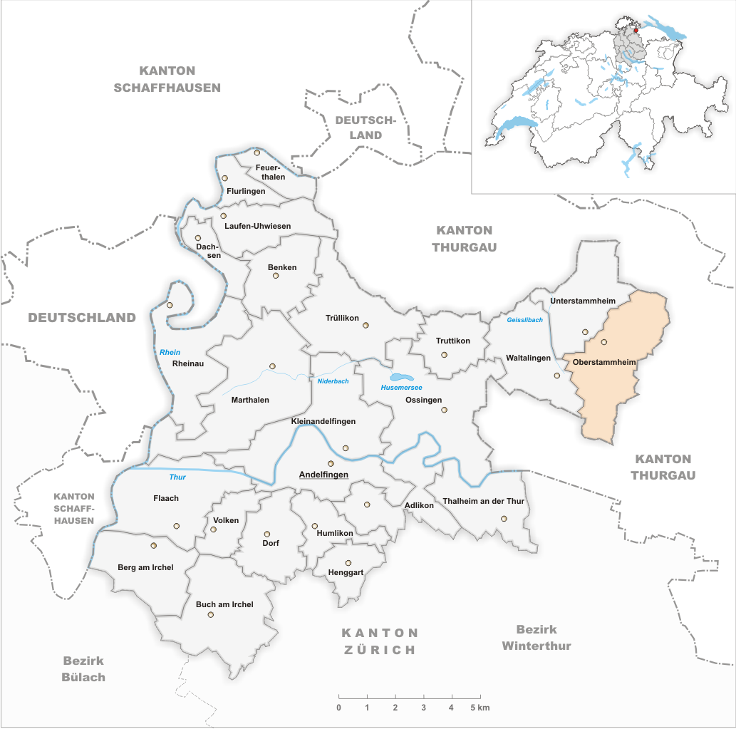 Municipality Oberstammheim